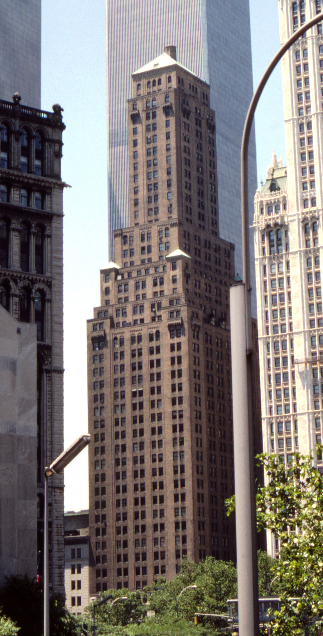 The Transportation Buildings. Photo taken June 21, 1984. One of the World Trade Center Twin Towers can be seen behind it.